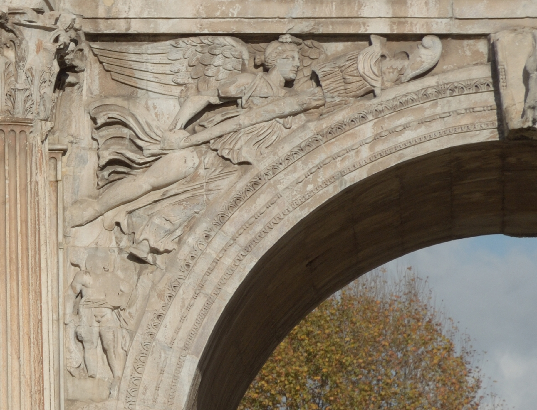 Arch of Constantine,left down, spandrel